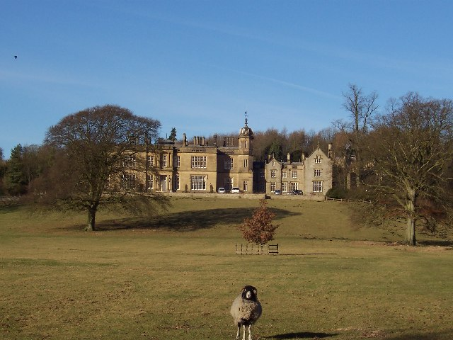 Eshton Hall, now converted to appartments, near Eshton